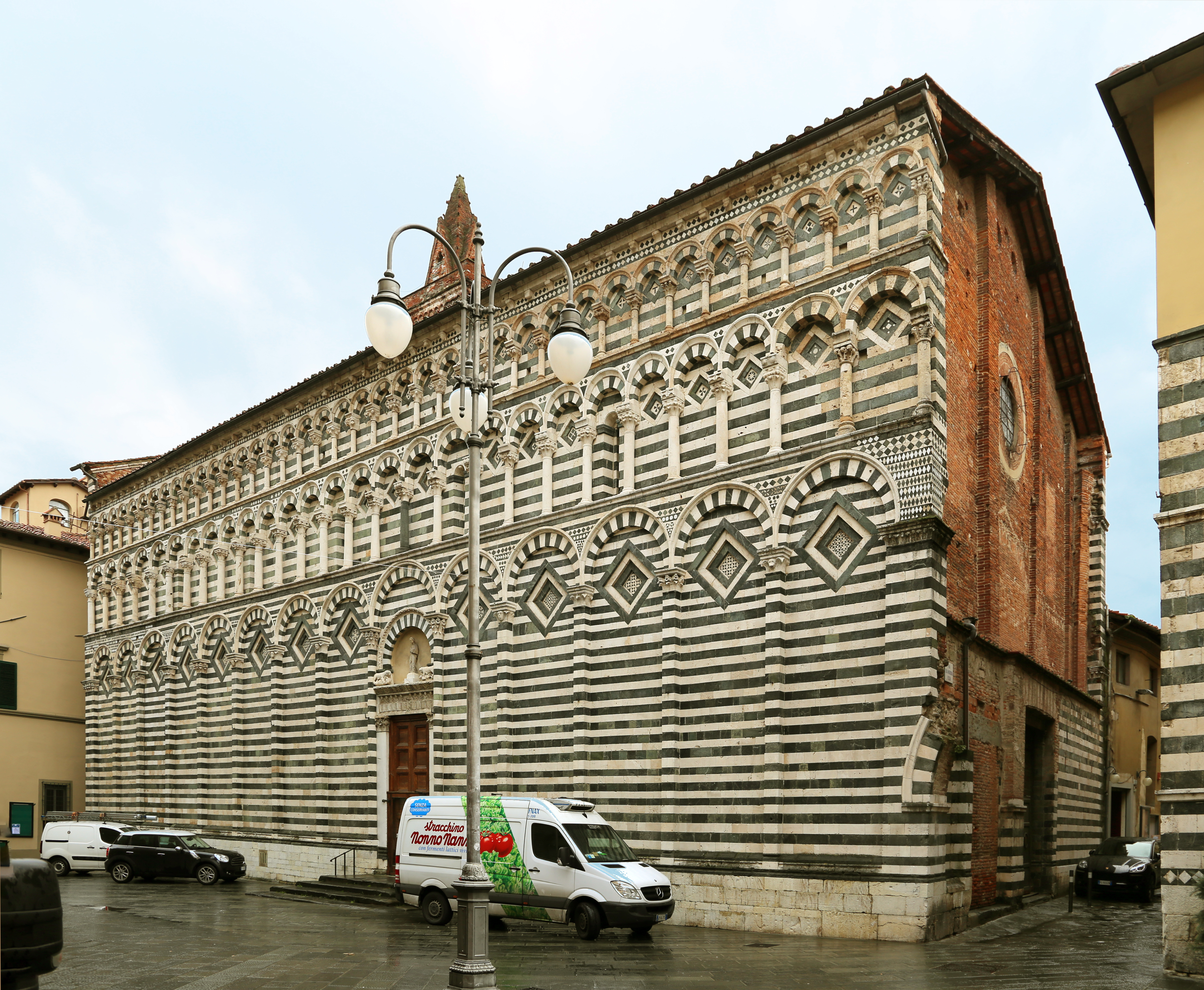 San Giovanni Fuorcivitas (Pistoia)